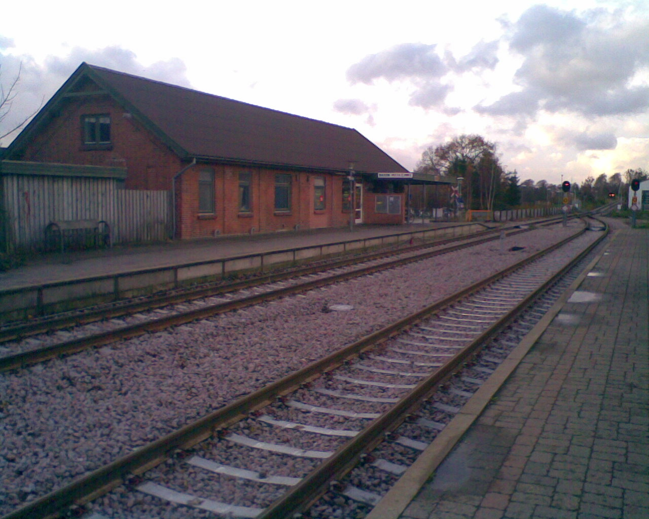 Mårslet Station, Denmark